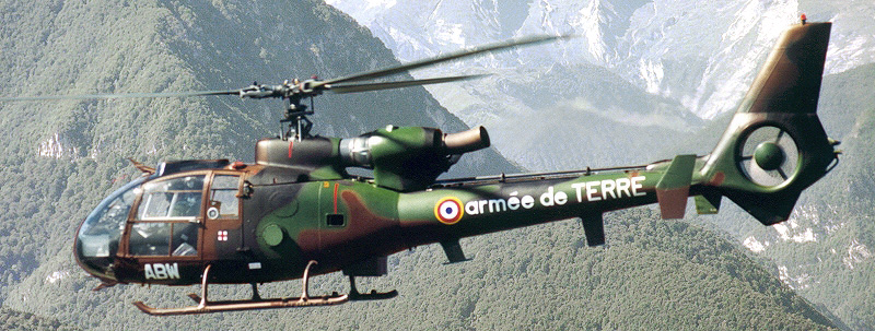 Reco/liaison helicopter Sud-Aviation Gazelle SA 342M (registration: F-MABW #3458) of the French Army's Light Aviation (ALAT), Army's Helicopters Squadron (EHADT). Location: Pyrenees mountains, near Lourdes, France.